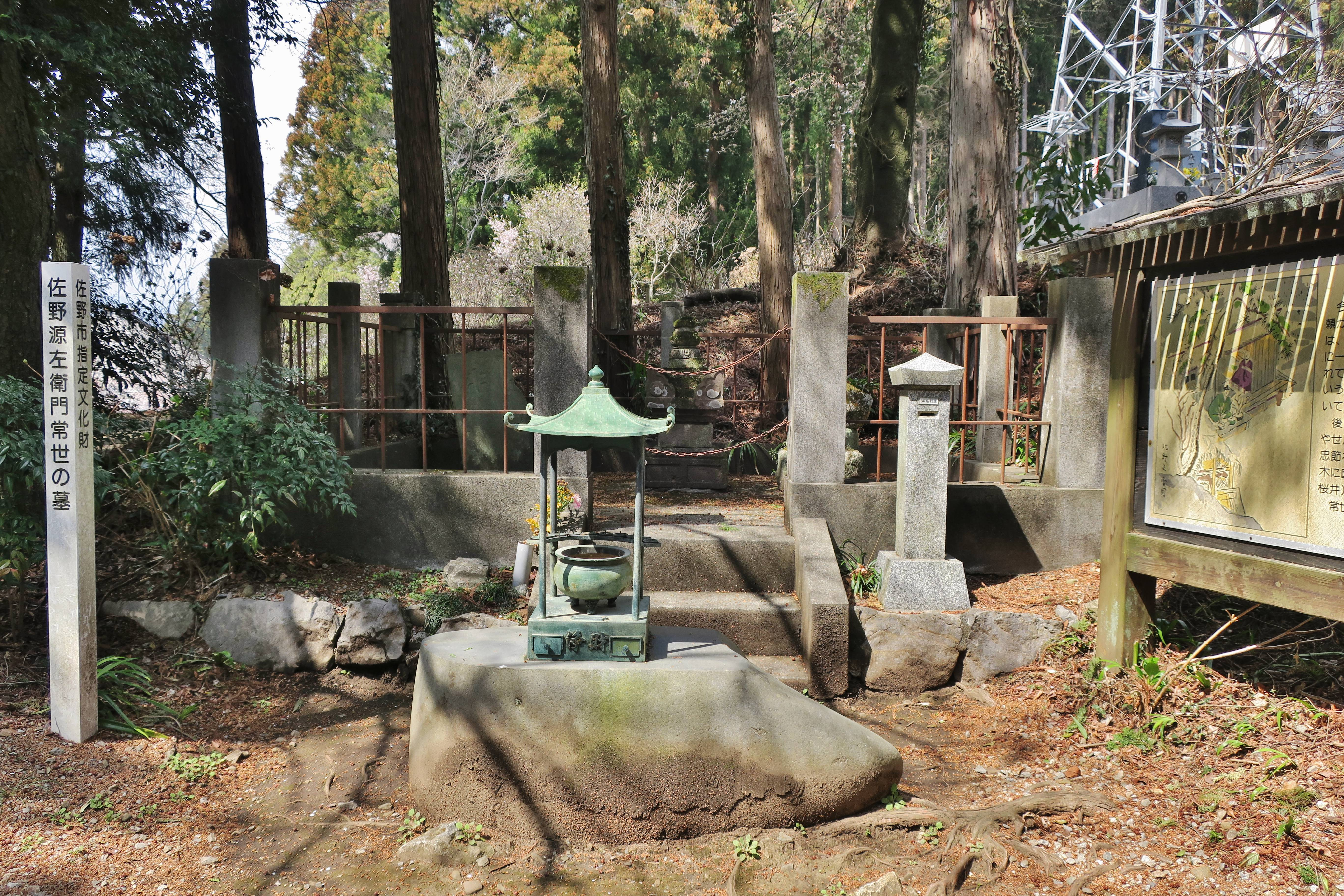 Ganjo-ji (Sano, Tochigi) Sano Genzaemon Tsuneyo grave.